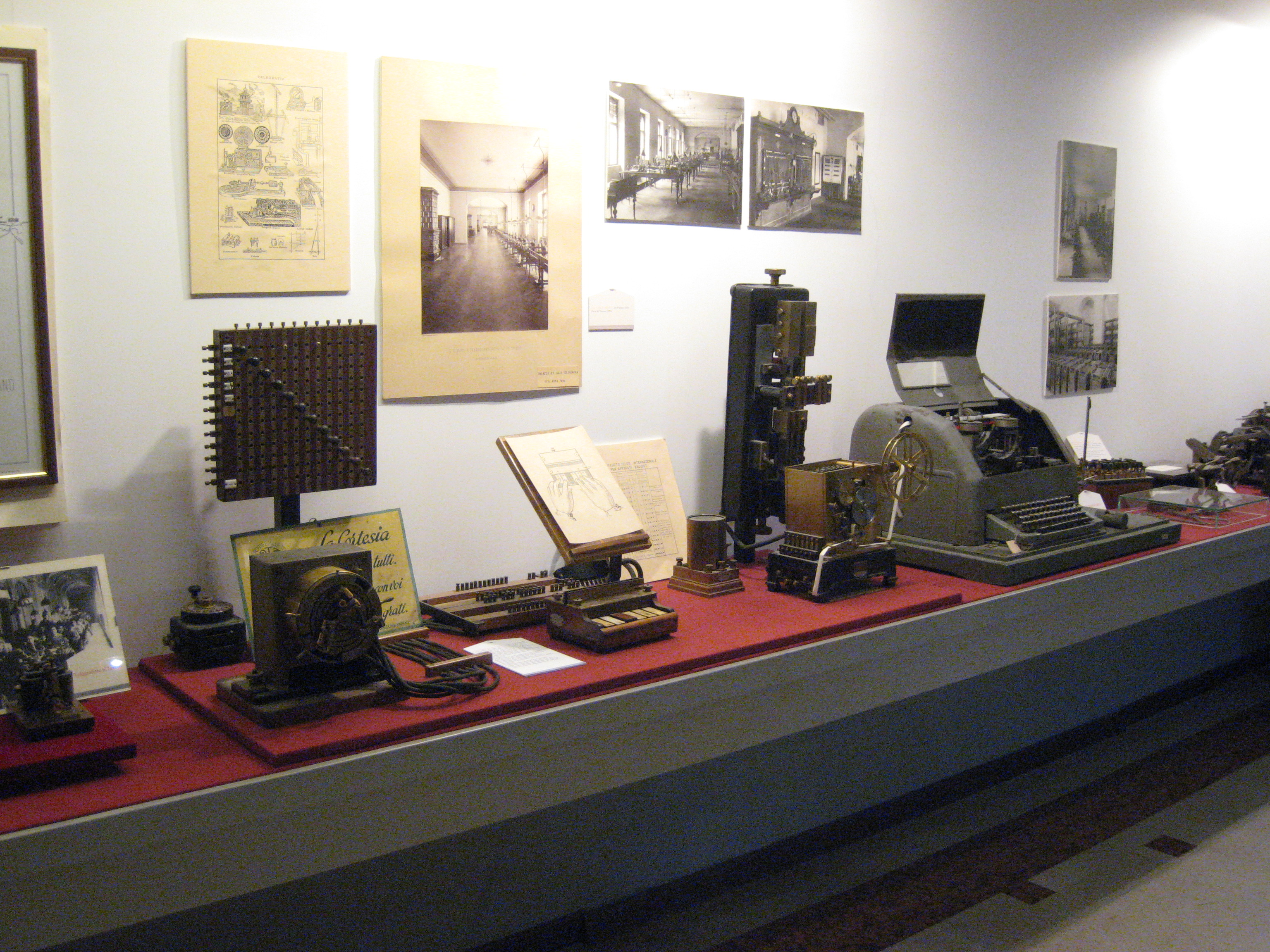 Italy - Trieste - Museo Postale e Telegrafico della Mitteleuropa